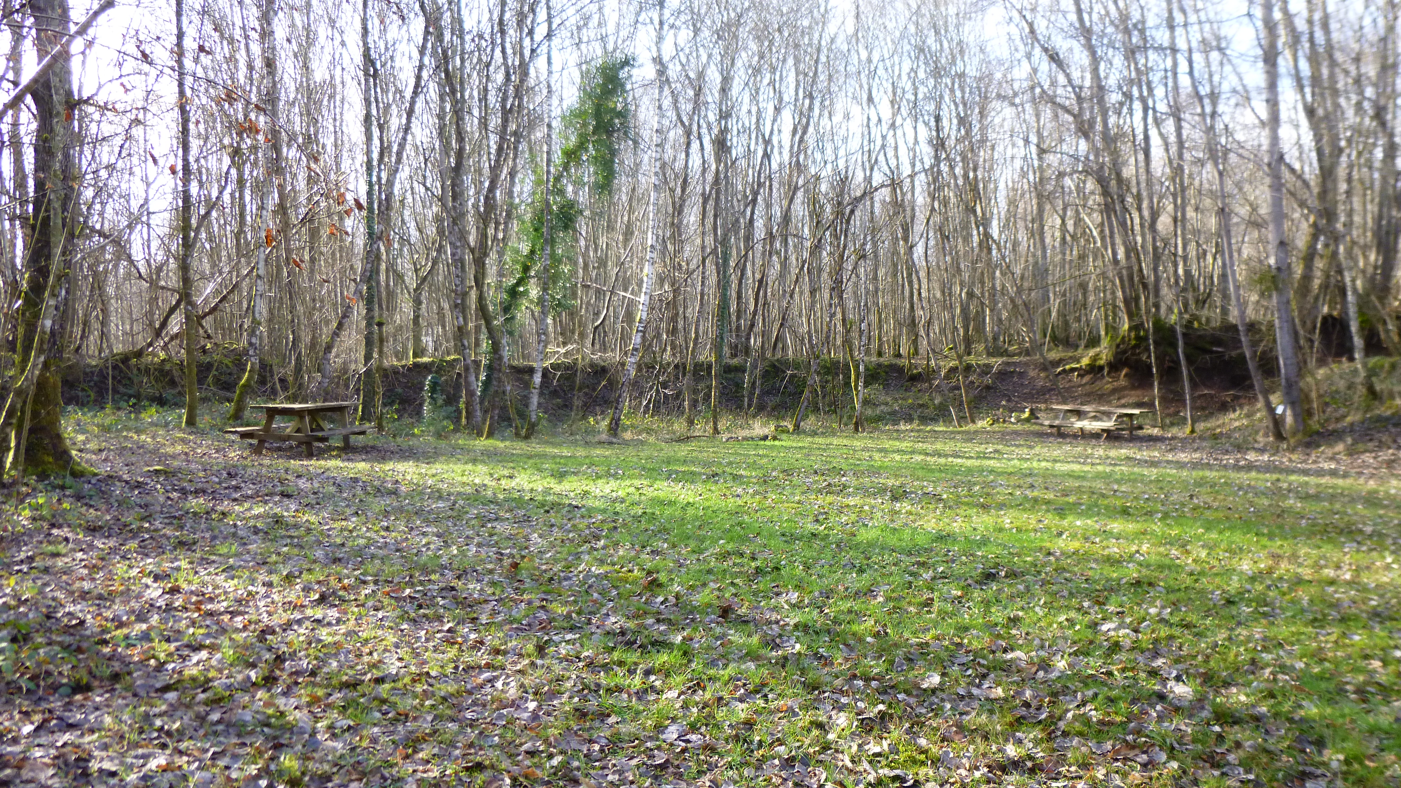 The "ferrier", Tannerre-en-Puisaye, Yonne, Burgundy, France. At this place used to rise a fort called La Motte Champlay. Built in the Middle Ages, on slag and possibly on the remnants of a roman defence.